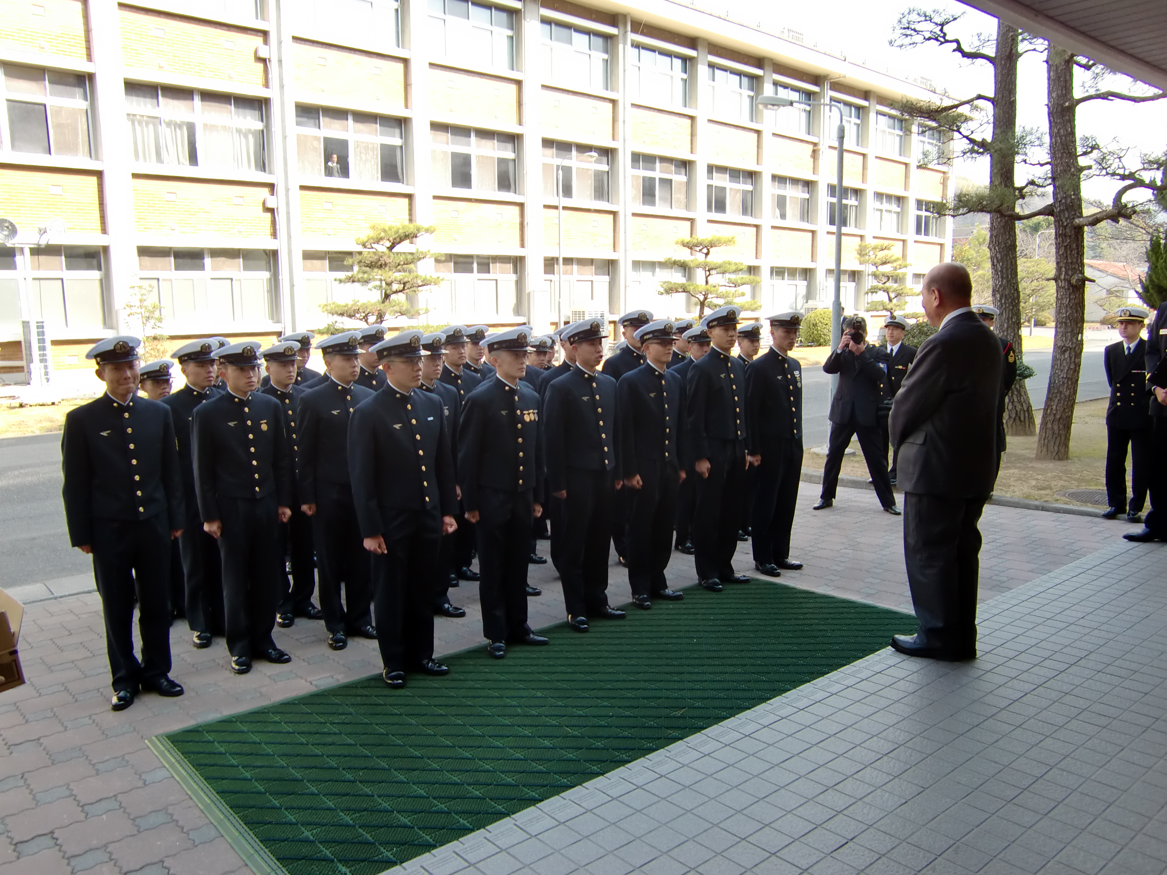 53 Japan Maritime Self-Defense Force Student